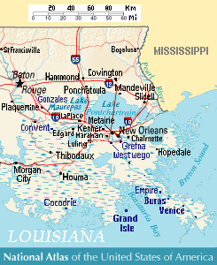 Close view of east-southeast Louisiana (USA), showing areas of Baton Rouge, New Orleans, Metairie, Chalmette, Gretna, Westwego, Harahan, Luling, Kenner, LaPlace, Edgard, Convent, Slidell, Mandeville, Covington, Ponchatoula, Houma, Cocodrie, Buras, Venice, and Grand Isle, Louisiana. Lakes include: Lake Pontchartrain, Lake Maurepas (west), and Lake Salvador (south of Pontchartrain).